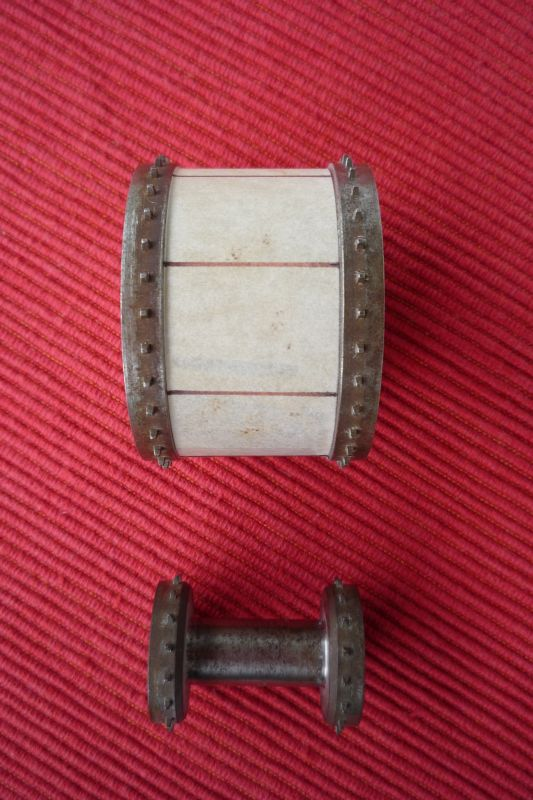 dismantled feed-/takeup sprocket (above) and intermittent sprocked (below) of 35mm movie projector